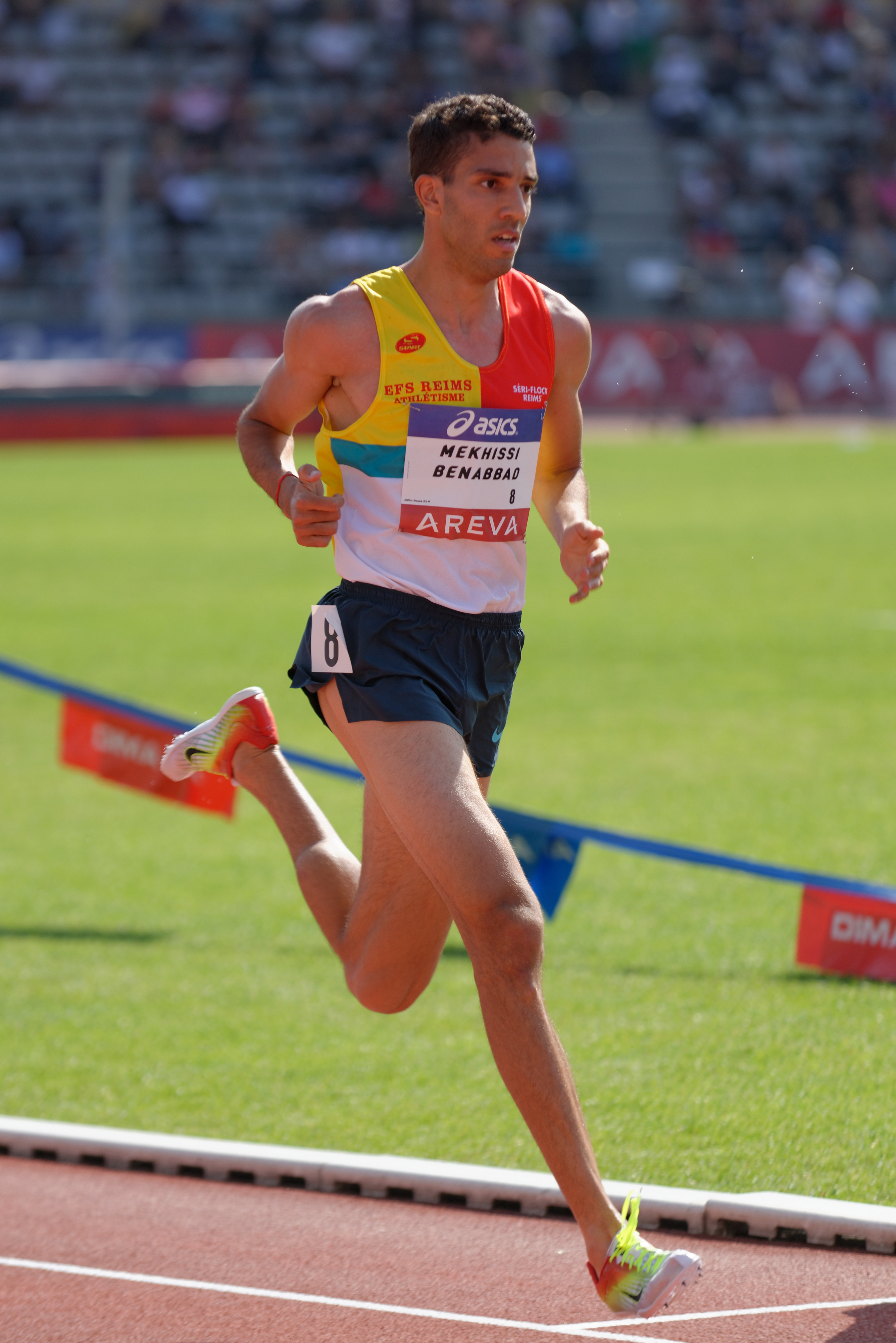 Mahiedine Mekhissi-Benabbad competes in the men's 3000 m steeplechase during the French Athletics Championships 2013 at Stade Charléty in Paris, 13 July 2013.